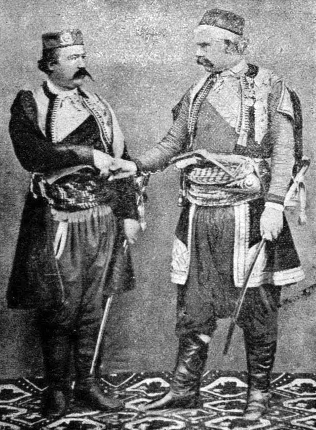 Lazar Sočica and Marko Miljanov. Photograph published in a Serbian magazine.